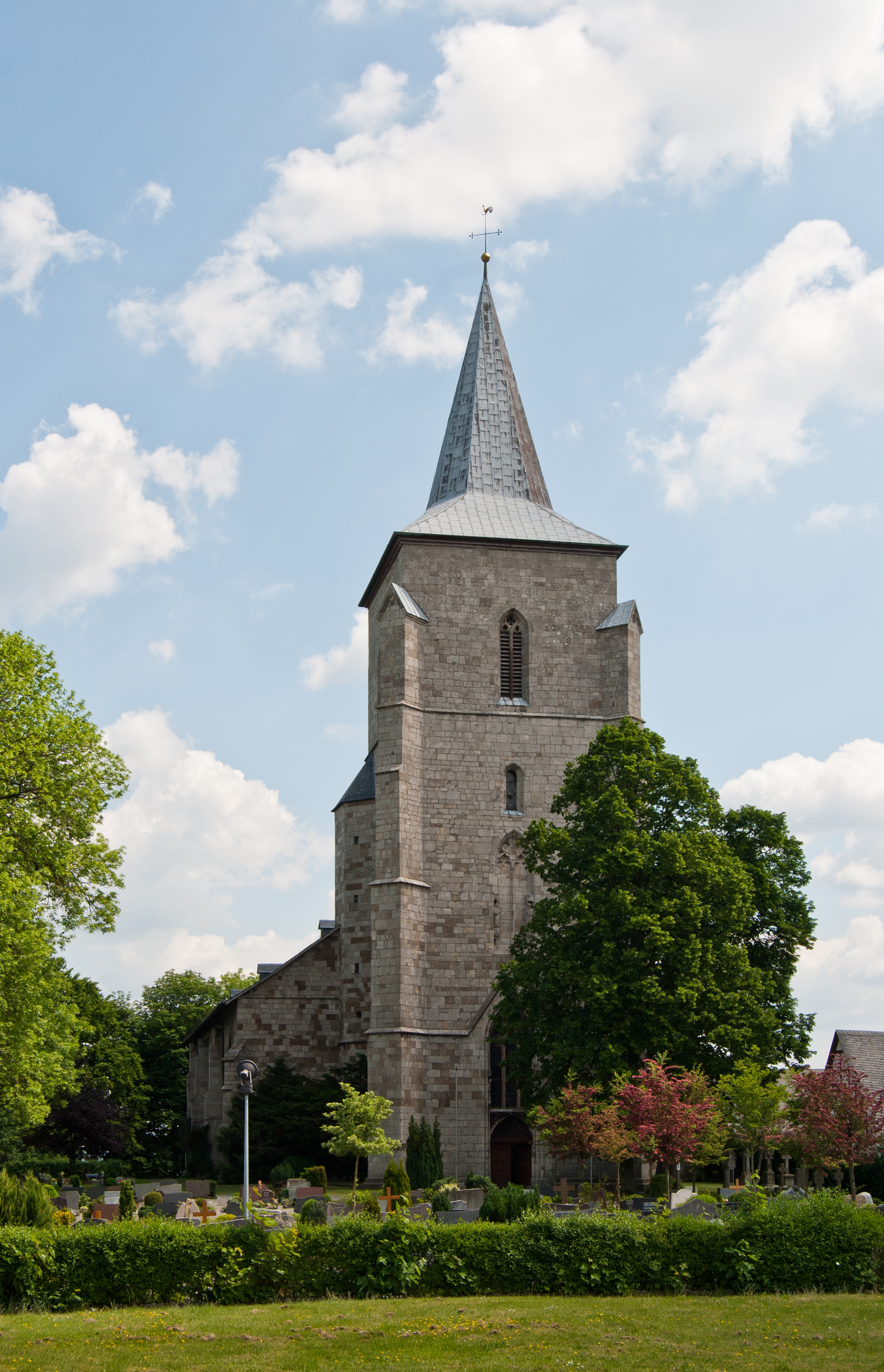 Marsberg (North Rhine-Westphalia, Germany) – Obermarsberg Monastery – Saints Peter and Paul Abbey Church – view from west This image shows a heritage building in Germany, located in the North Rhine-Westphalian city Marsberg (no. 15). This photograph was taken with a Nikon D3000